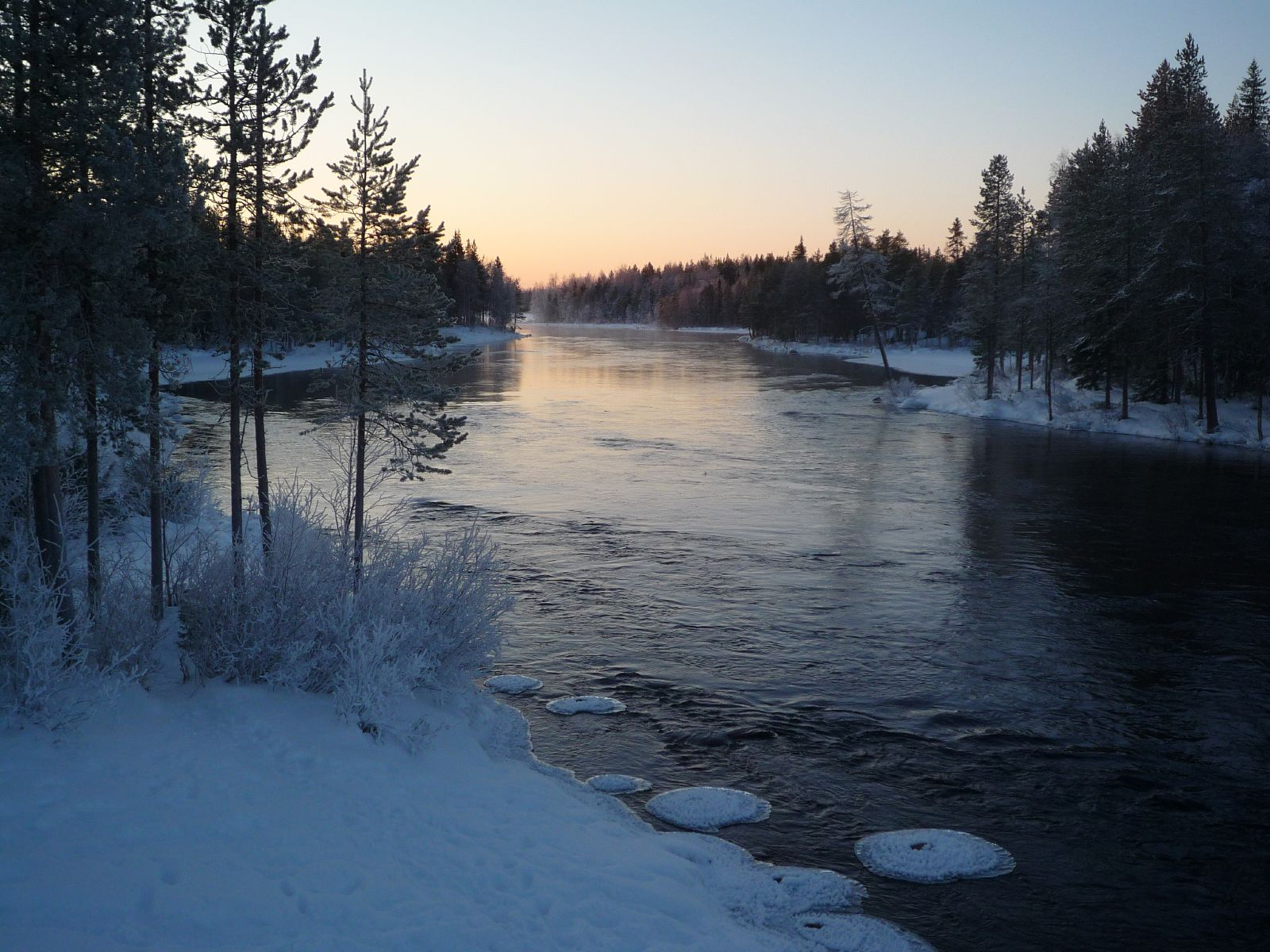 A snowy river north of Ruka, Finland